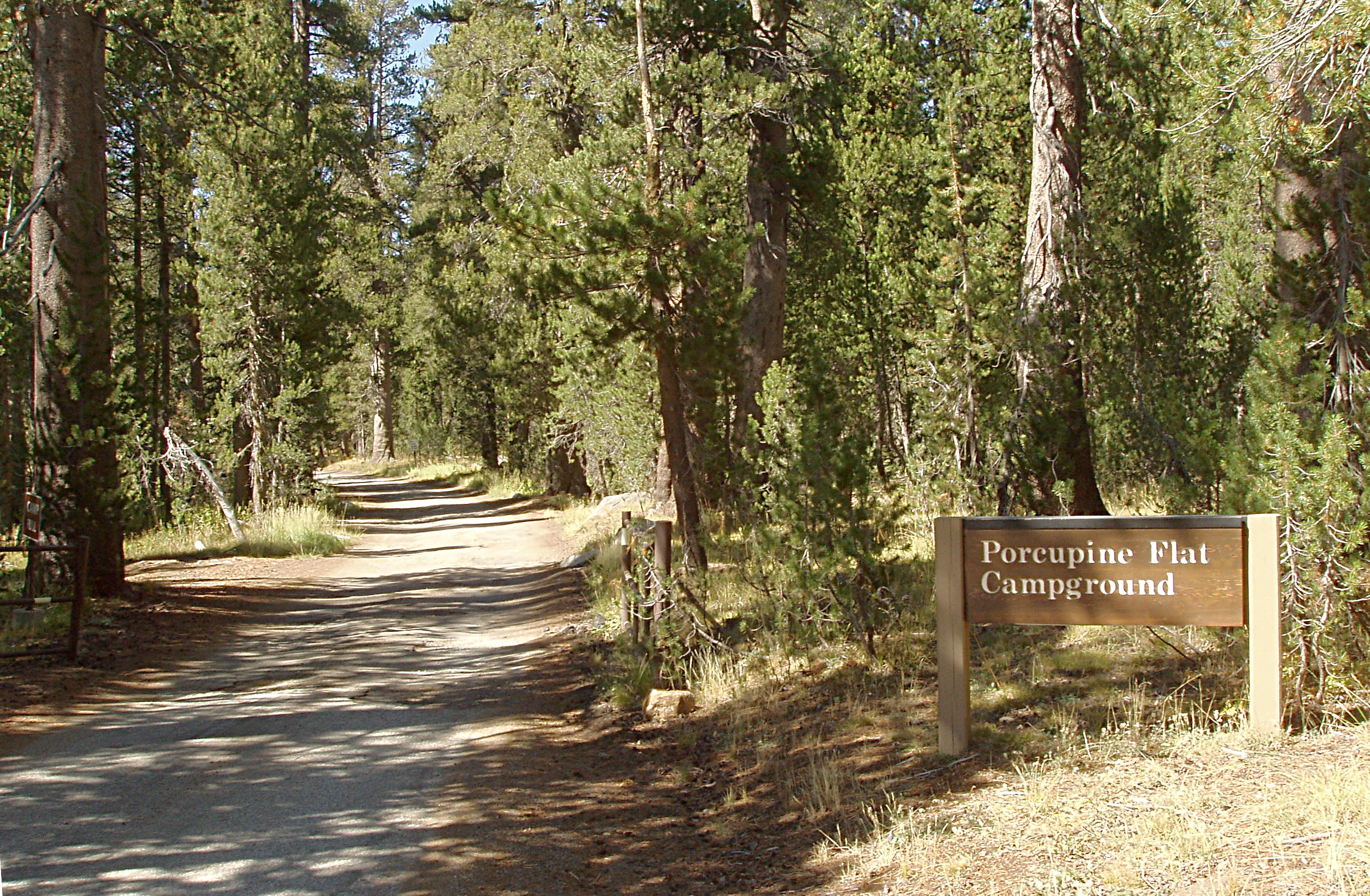 Porcupine Flat Campground Entrance